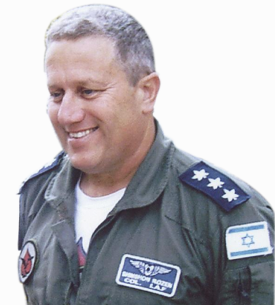 In September 2003, combat planes appeared over Auschwitz again, but this time they were planes of the IAF, carrying on their wings the collective memory and the resurrected flag of the Jewish people.